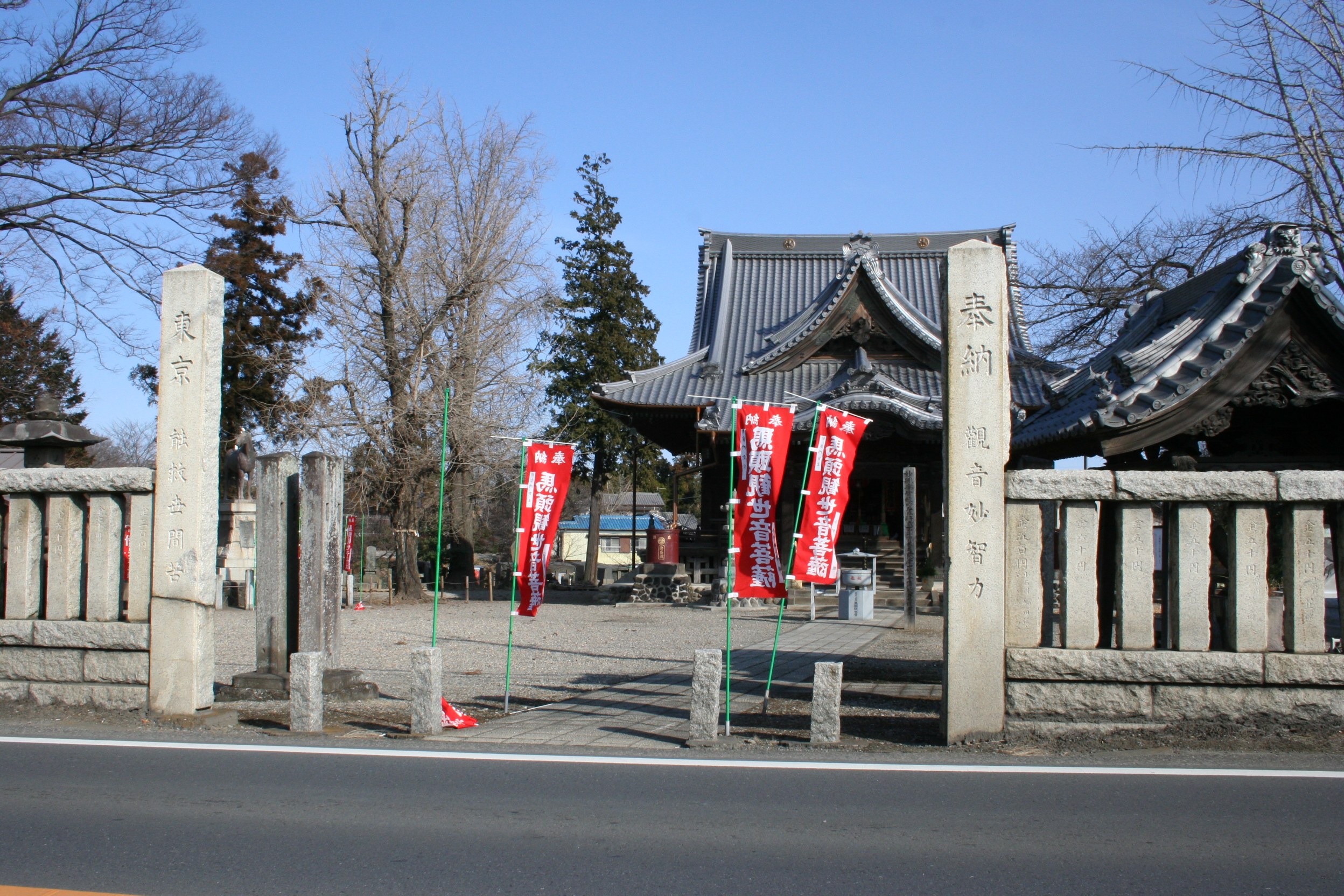 Ooka Batou-kannon(Hayagriva - horse-headed bodhisattva) Temple, Kamioka district, Higashimatsuyama-shi, Saitama, Japan 上岡観音（埼玉県東松山市大岡地区）